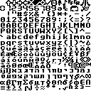 The Atari ST character set as rendered in the 8×8 system high-resolution font. Includes all code points (0-255).